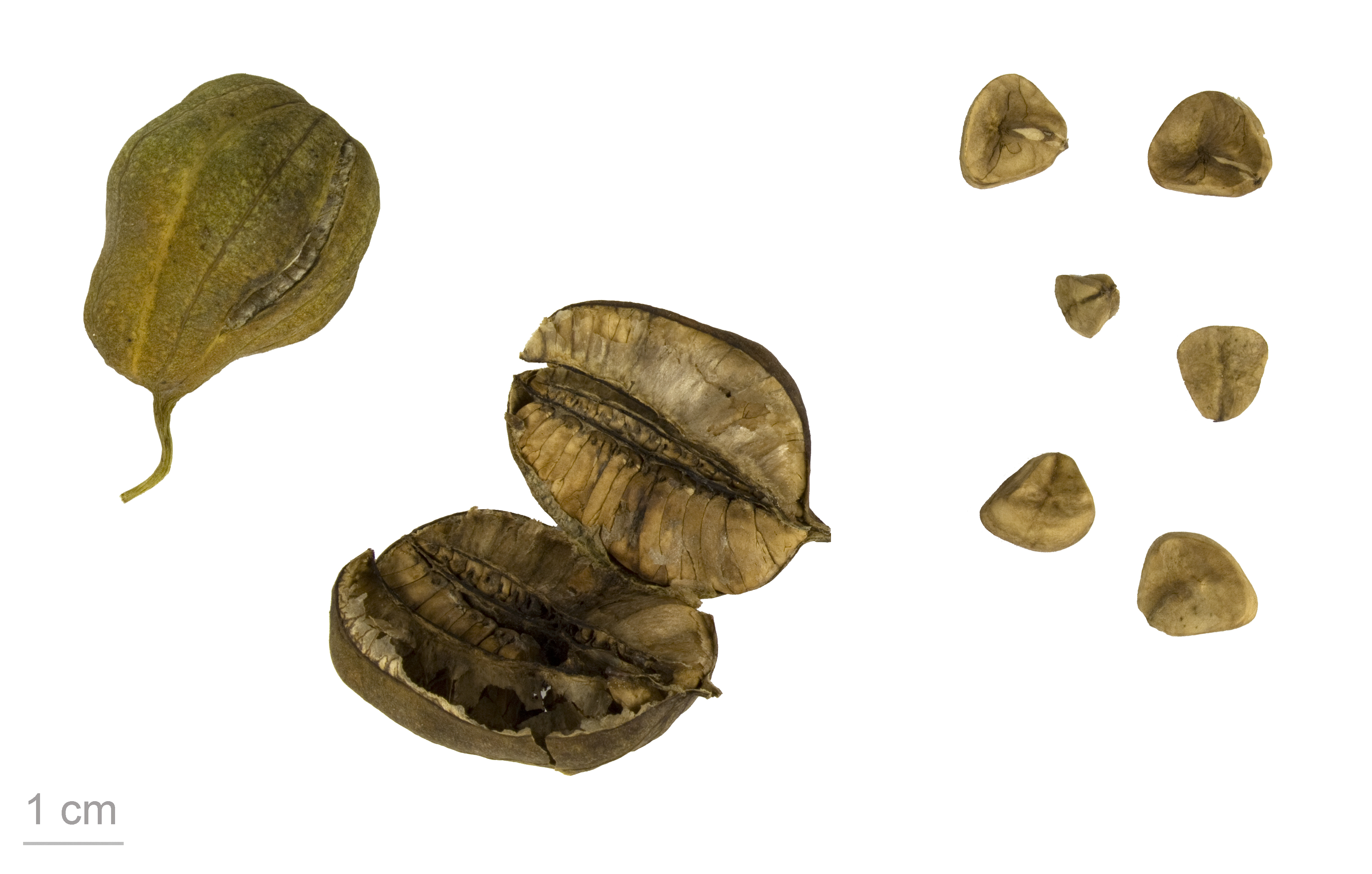 Birthwort , fruits and seeds